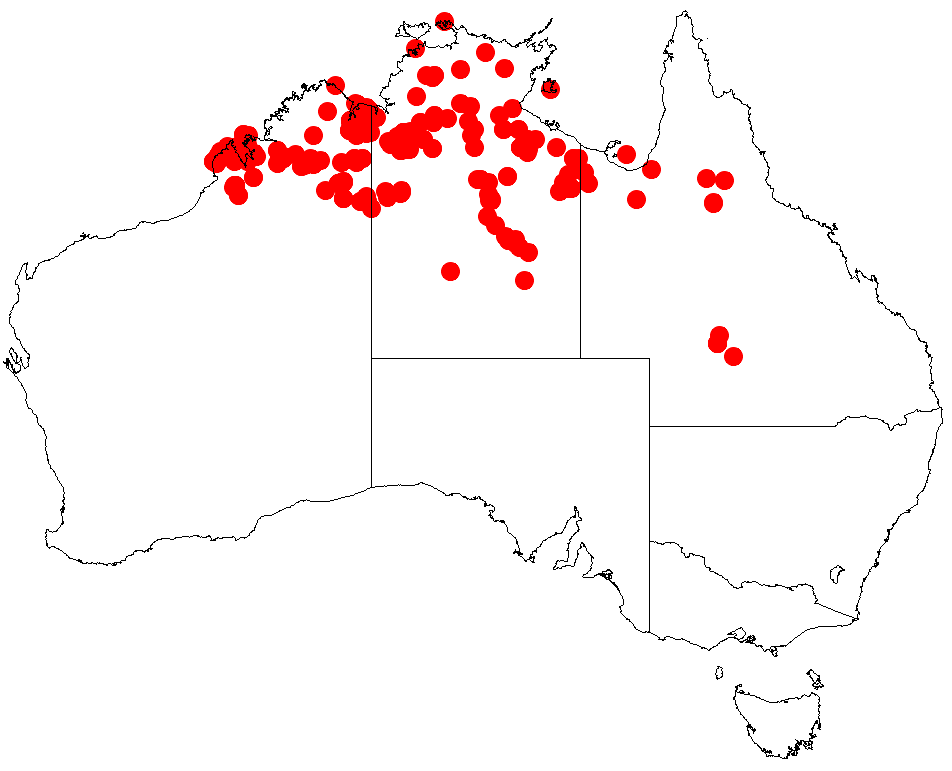 Acacia neurocarpa occurrence data from Australasian Virtual Herbarium downloaded from on 8 December 2018